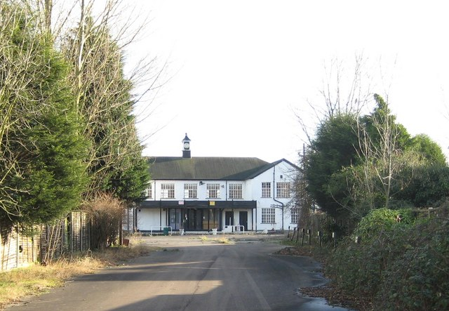 Motspur Park: Former BBC Sports Ground Clubhouse The sports ground become disused and was sold in 2005 to a developer who intended to build a leisure and fitness centre on the site. However local opposition to the proposed scheme was strong, and the latest plans (in October 2007) are suggesting that the sports ground could be turned into a cemetery. This is because planning regulations require the land to remain as a green space and a cemetery is one of the very few options now open to the owners. This is the clubhouse photographed through the gates to the site off the Motspur Park road.